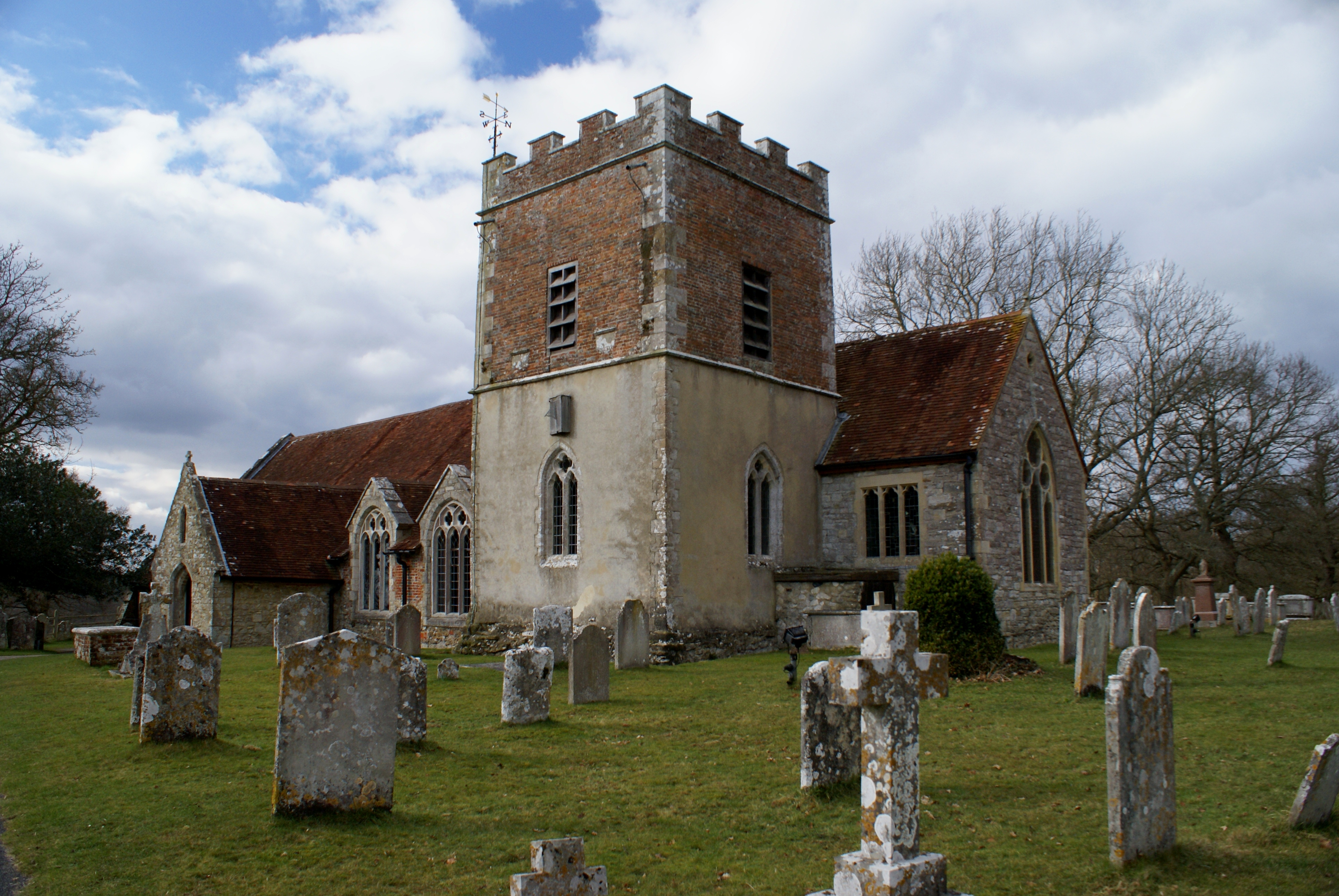 St. John the Baptist Church, Boldre, Hampshire, United Kingdom